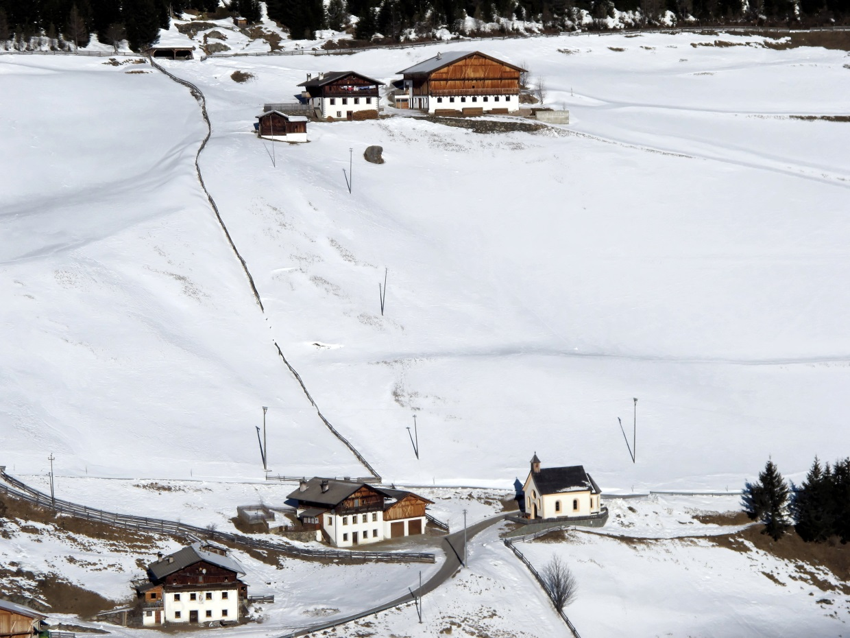 Village Durnholz in Valley Sarntal (Sarntaler Alps): Chapel